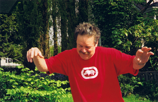 Gaye goofin' around.